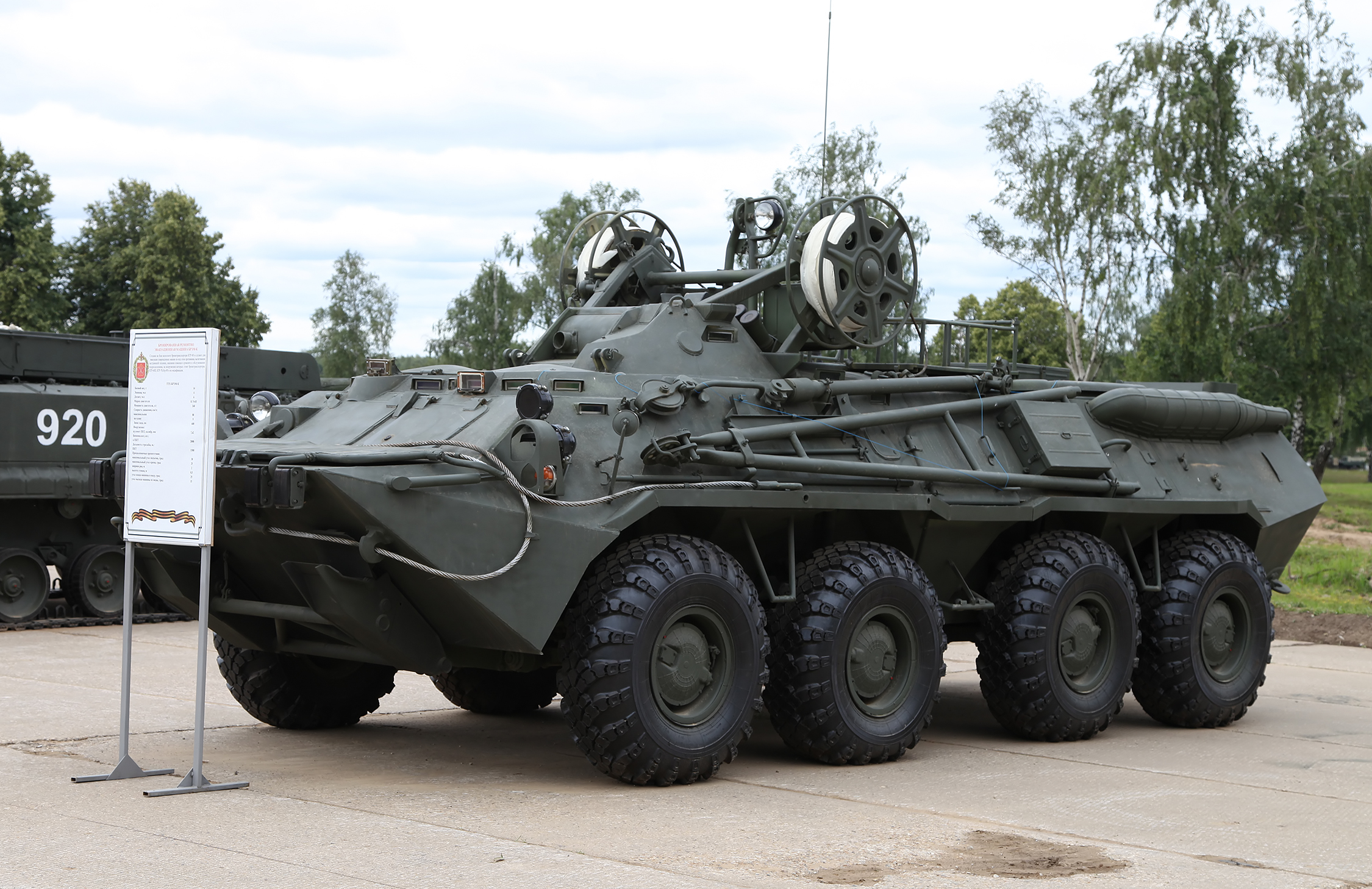 BREM-K wheeled armoured recovery vehicle